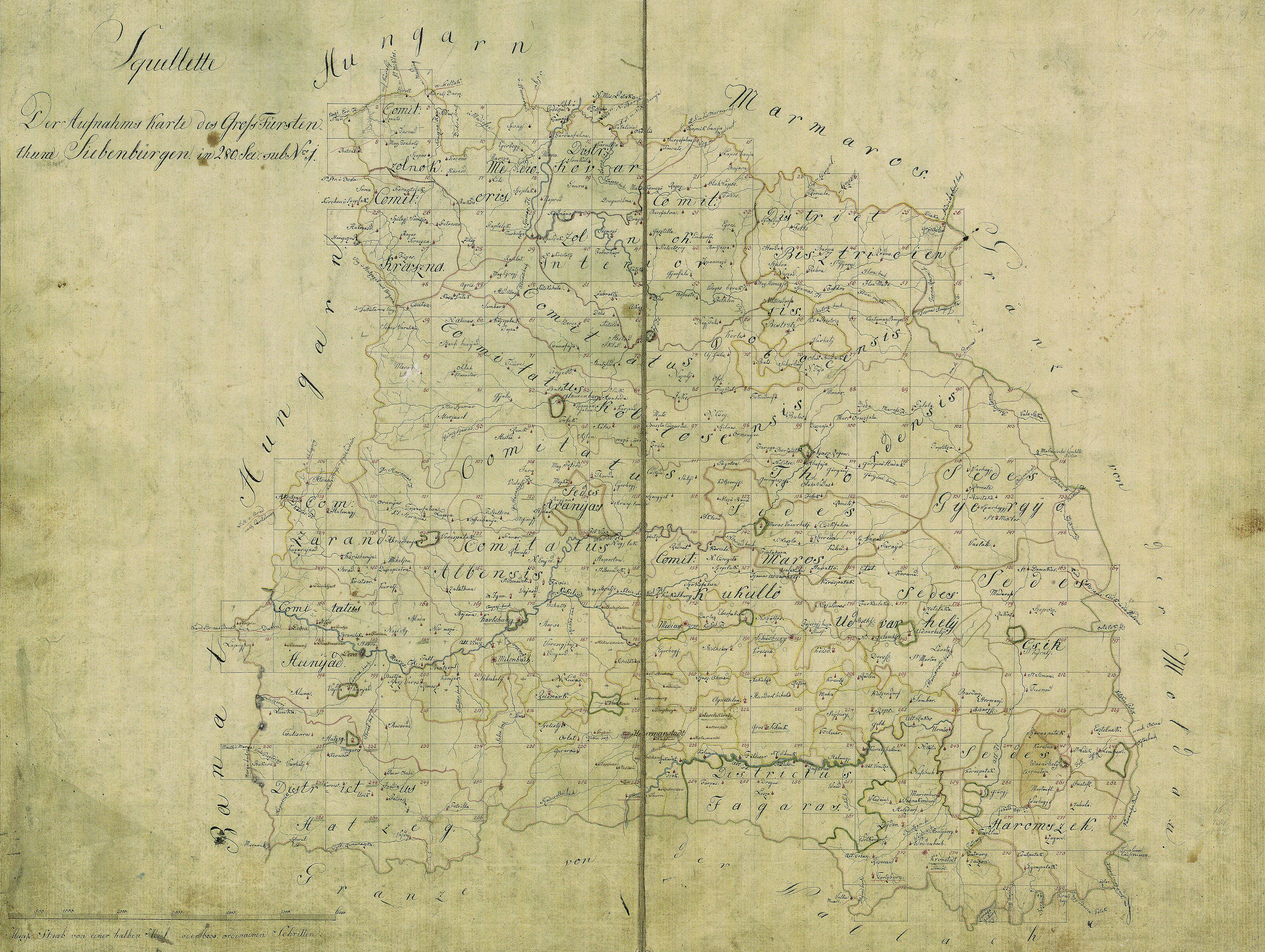 The Grand Duchy of Transylvania in the "Josephinische Landesaufnahme" that was ordered by Maria Theresia and finalized in the period of Josef II in 1773. The map consists of 280 files which you can access individually via the sensitive map below.